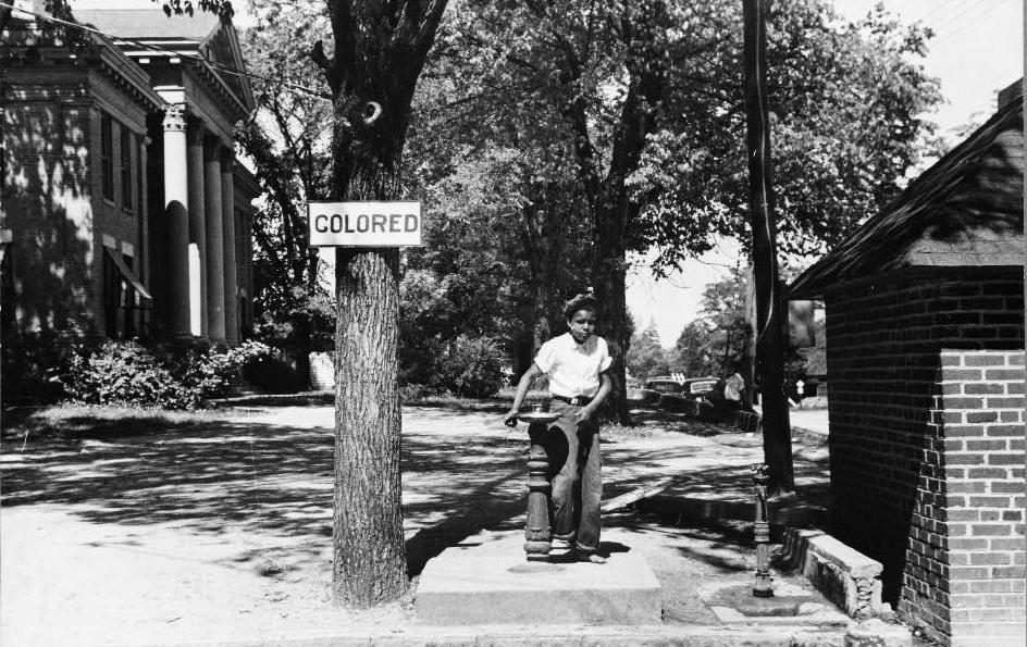 TITLE: Drinking fountain on the county courthouse lawn, Halifax, North Carolina CALL NUMBER: LC-USF33- 001112-M1 [P&P] REPRODUCTION NUMBER: LC-DIG-fsa-8a03228 (digital file from original neg.) LC-USF3301-001112-M1 (b&w film dup. neg., 4x5 size) LC-USF33-T01-001112-M1 (b&w film dup. neg., 70mm size) LC-DIG-ppmsc-00216 (digital file from print showing mount) LC-DIG-ppmsca-05629 (digital file from print) LC-USZ62-100414 (b&w film copy neg. from print) MEDIUM: 1 negative : nitrate ; 35 mm. CREATED/PUBLISHED: 1938 Apr. CREATOR: Vachon, John, 1914-1975, photographer. NOTES: Title and other information from file print. LOT 1524A (Possible location of corresponding print.) Transfer; United States. Office of War Information. Overseas Picture Division. Washington Division; 1944. TOPICS: Small towns--North Carolina SUBJECTS: African Americans--Civil rights. Segregation. United States--North Carolina--Halifax. FORMAT: Nitrate negatives. PART OF: Farm Security Administration - Office of War Information Photograph Collection (Library of Congress) REPOSITORY: Library of Congress Prints and Photographs Division Washington, DC 20540 USA DIGITAL ID: (digital file from original neg.) fsa 8a03228 ((original print)) ppmsc 00216 ((original print)) ppmsca 05629 (b&w film copy neg. of print) cph 3c00414 OTHER NUMBER: E 90666 CONTROL #: fsa1997003218/PP